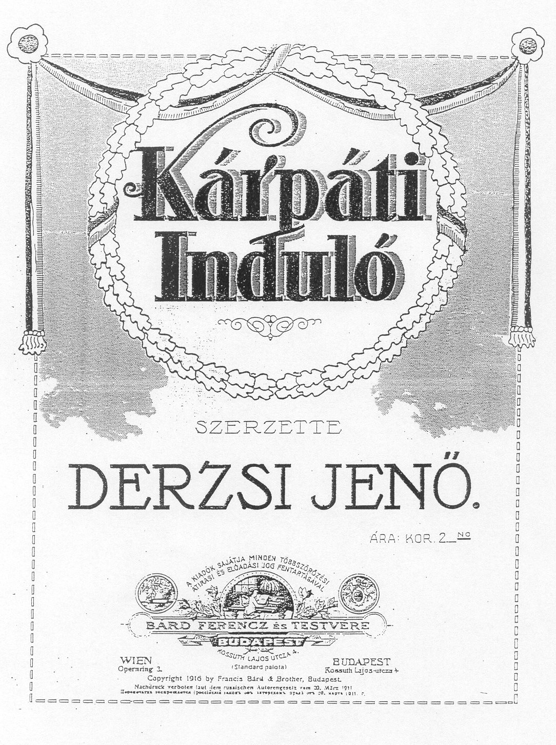 The cover of the sheet music "Carpathian departing" (1916)